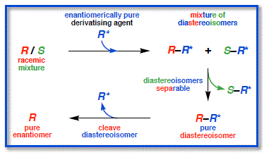 Derivatização